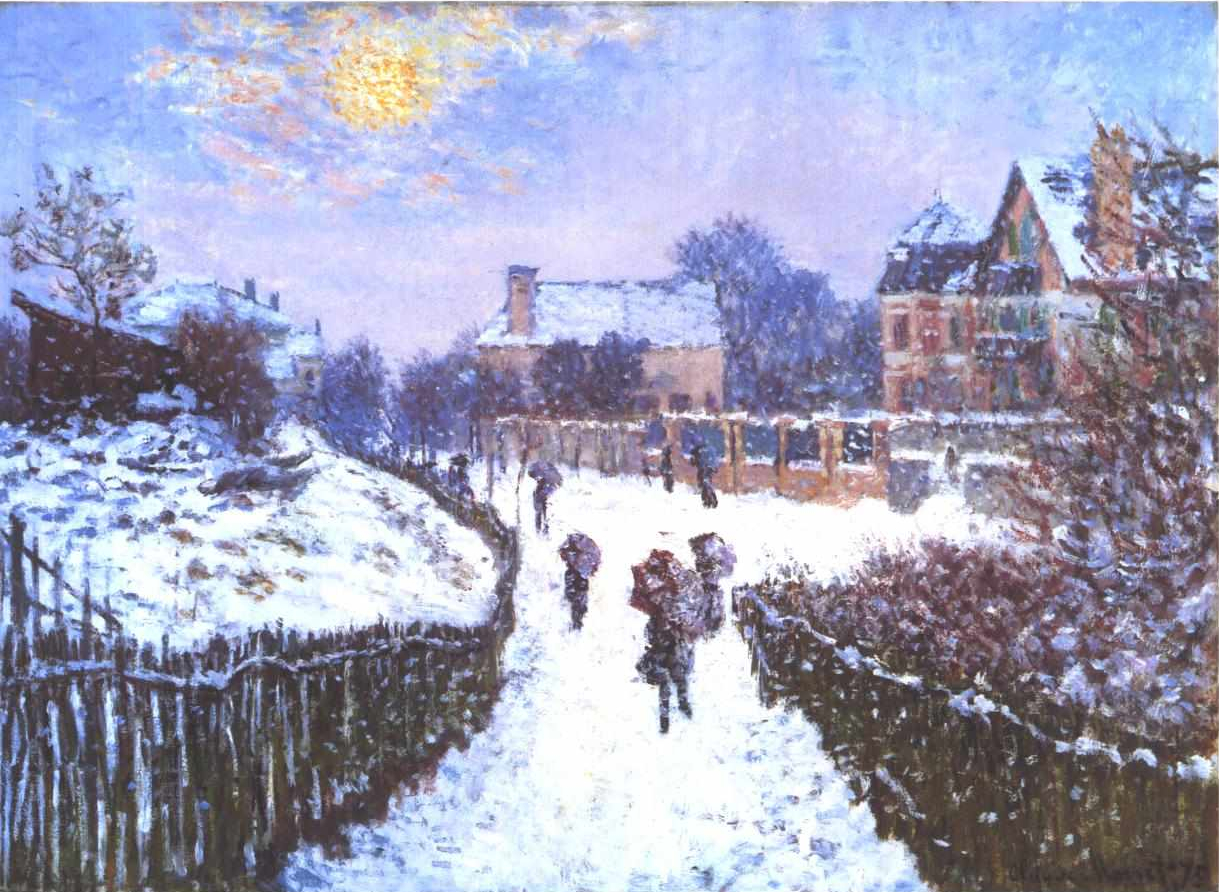 Boulevard Saint Denis, Argenteuil in Winter